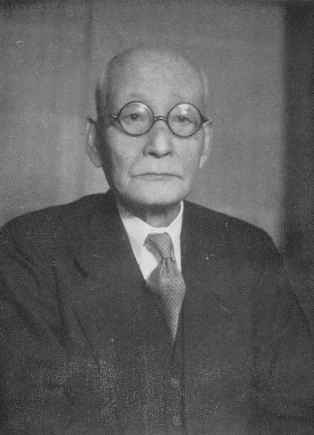 Sukeichi Shinohara.